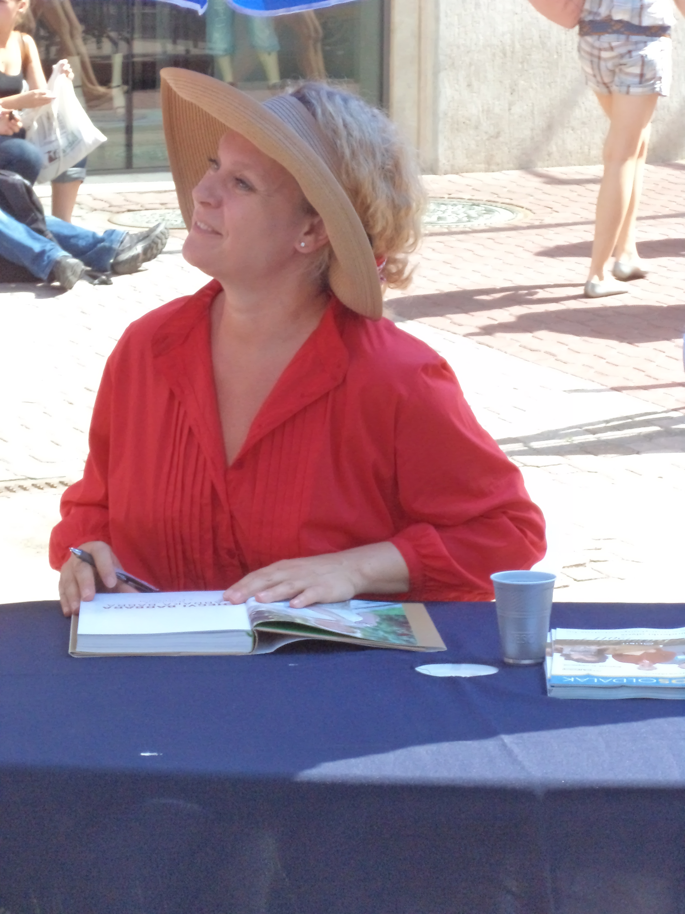 Barbara Hegyi Hungarian actress at Ünnepi Könyvhét 2012